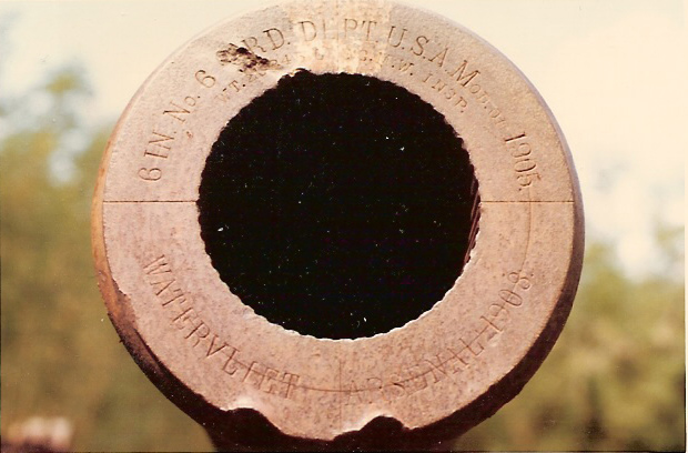 Muzzle of a splinter-damaged 6-inch disappearing gun at Fort Wint, Subic Bay, Luzon, Philippine Islands